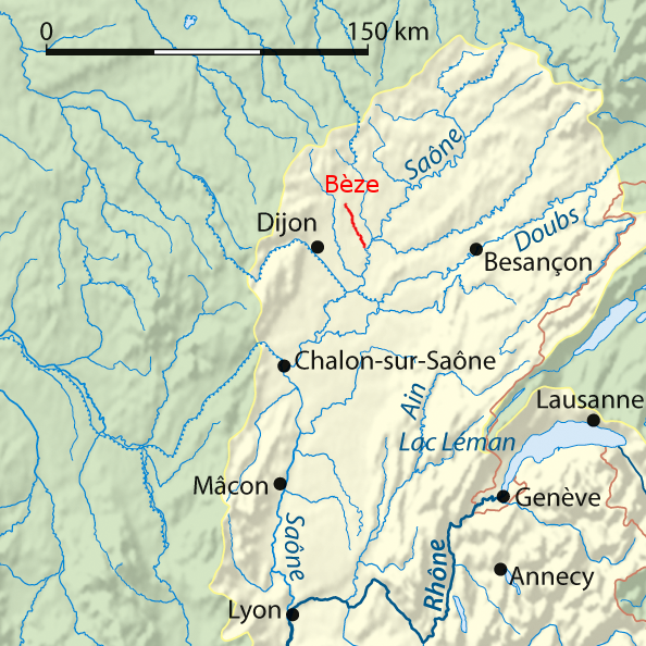 Stream of Bèze River, French version.